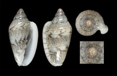 Marginella hernandezi Rolán & Gori, 2014; family Marginellidae; Sao Tome & Principe